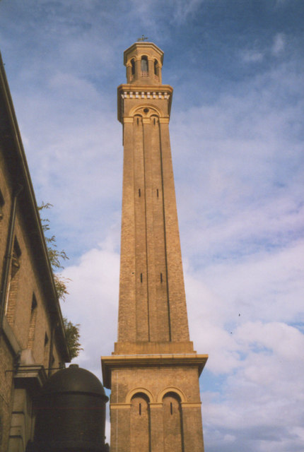 Standpipe Tower, Kew Bridge The tower contains large tall pipes that absorbed the surge of water from each stroke of the steam pumps to prevent damage to the mains. For more information on Kew Bridge Steam Museum, see Link